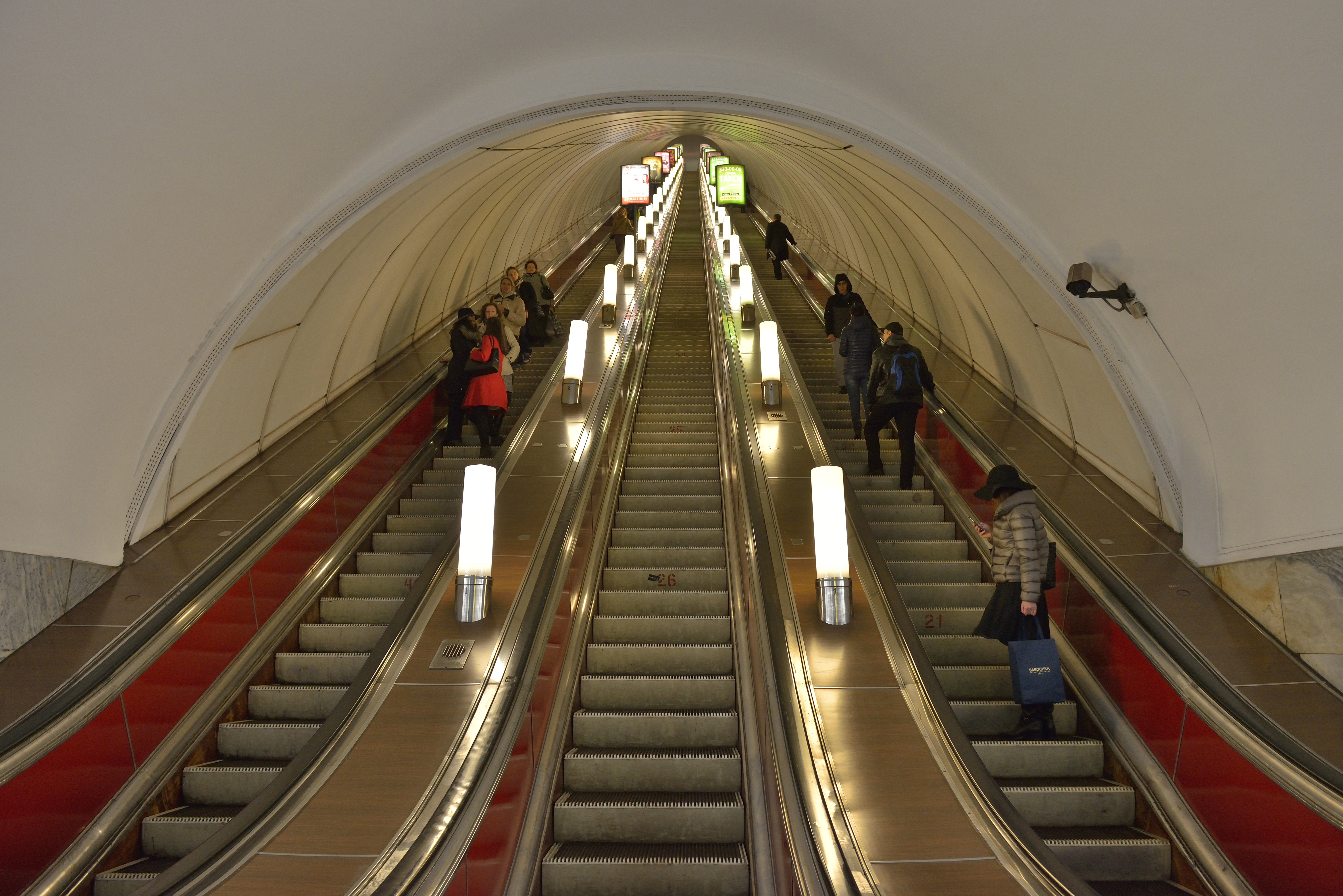 Escalator at the Nevsky Prospekt (Saint Petersburg Metro) in Saint Petersburg.